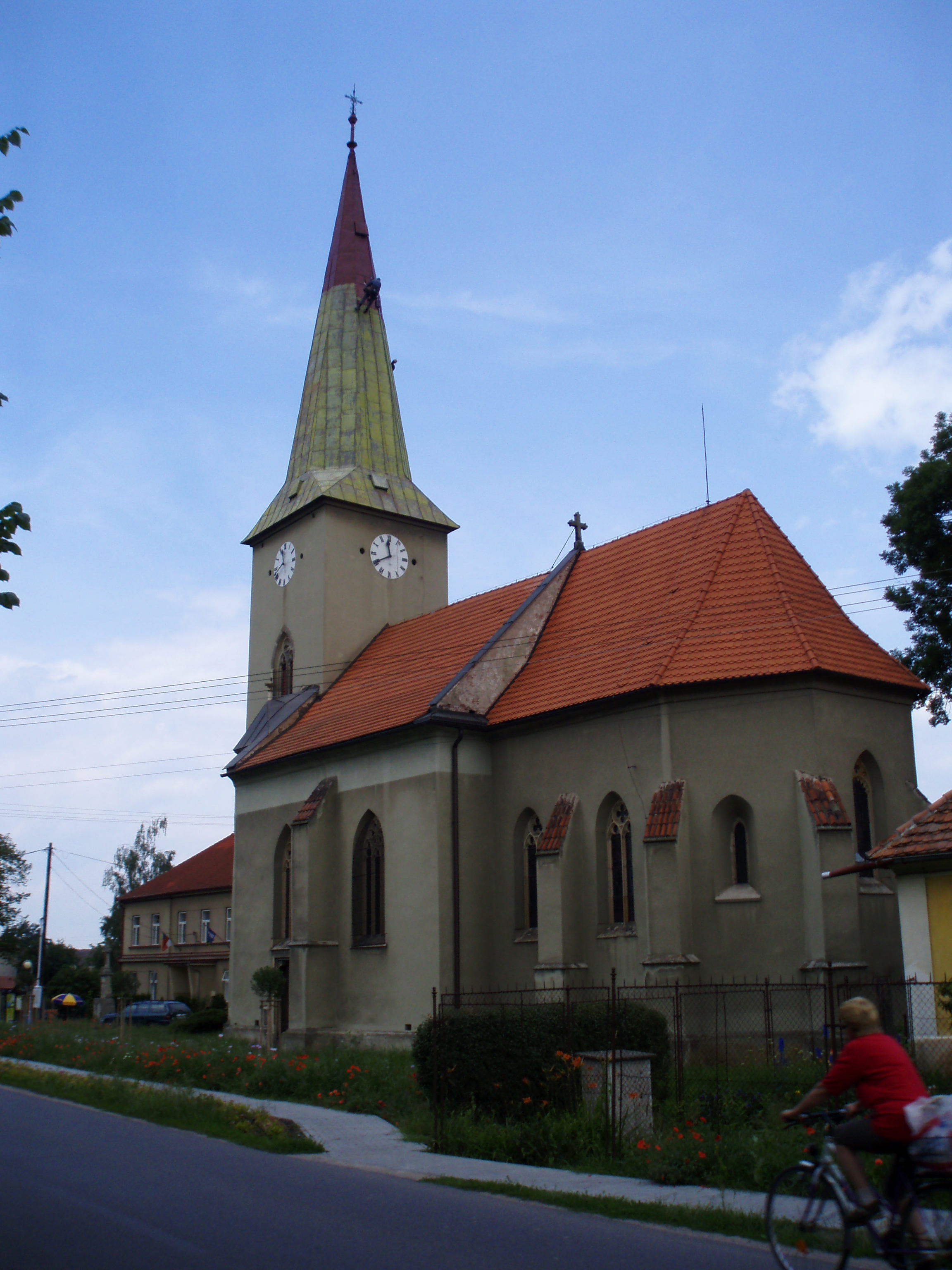 Church of St Bartholomew in Kunětice (District of Pardubice, CZ)